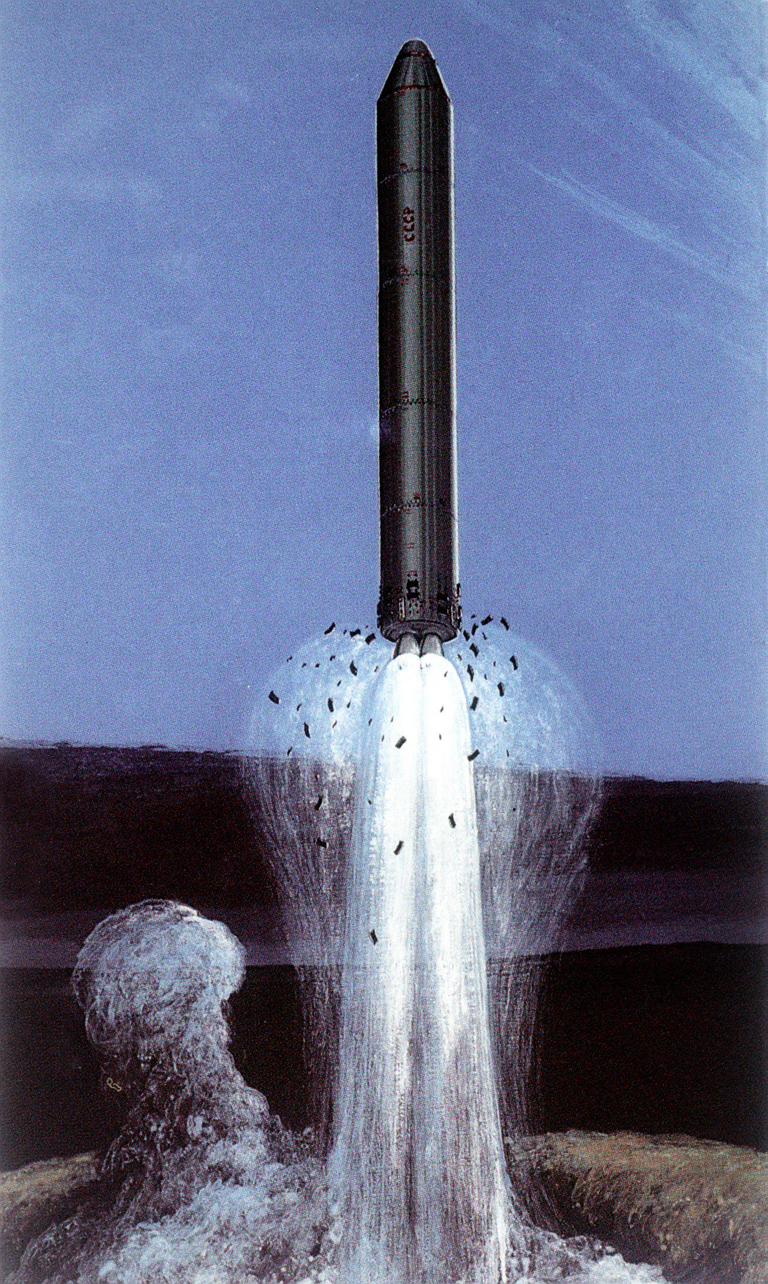 An artist's concept of a Soviet SS-18 intercontinental ballistic missile being launched.